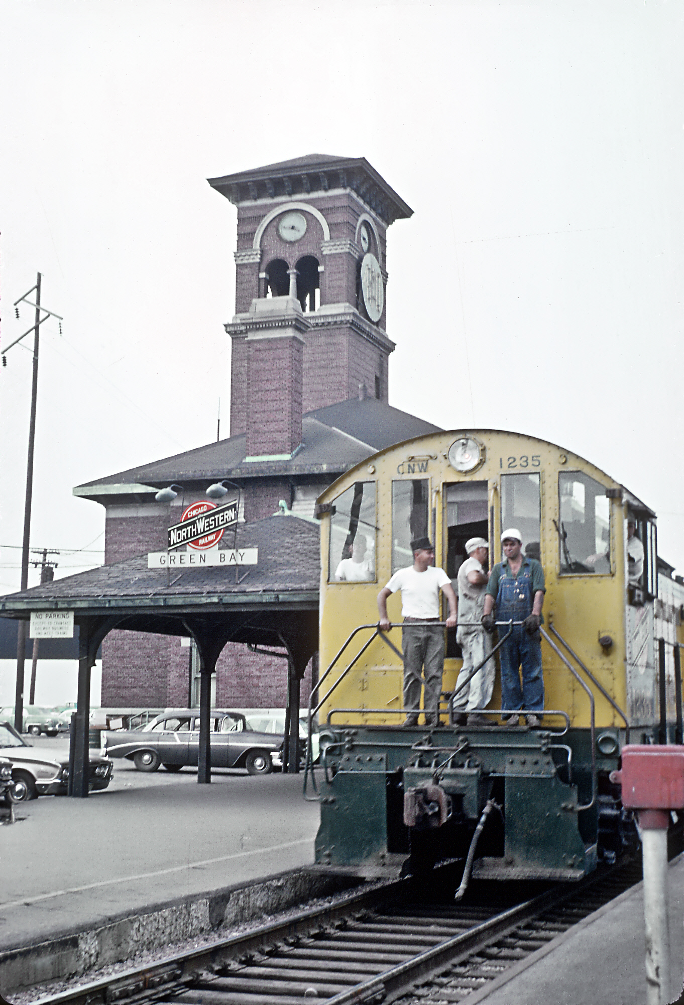 CNW 1235 (Alco S-1) at Green Bay, WI in September 1963.